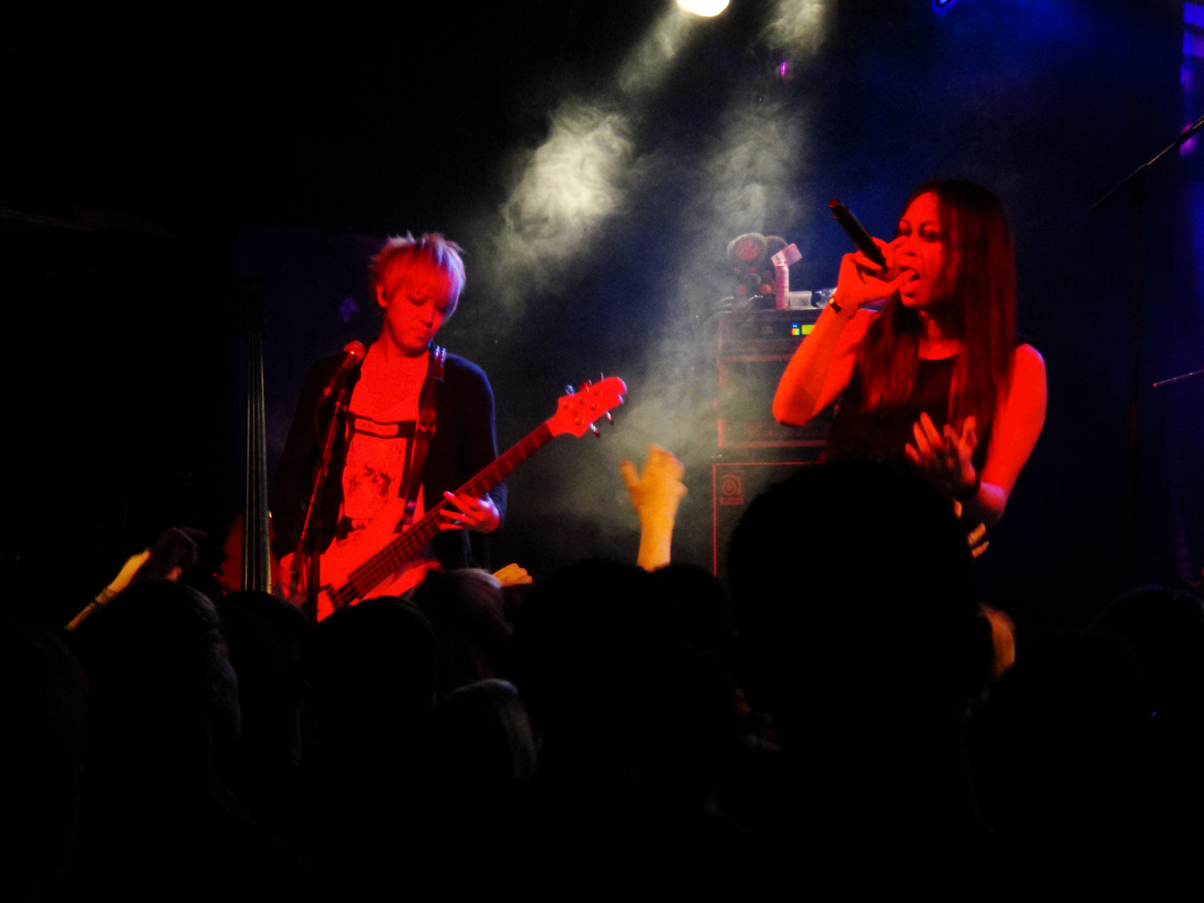 MUCC live at Malmö Kulturbolaget 2009